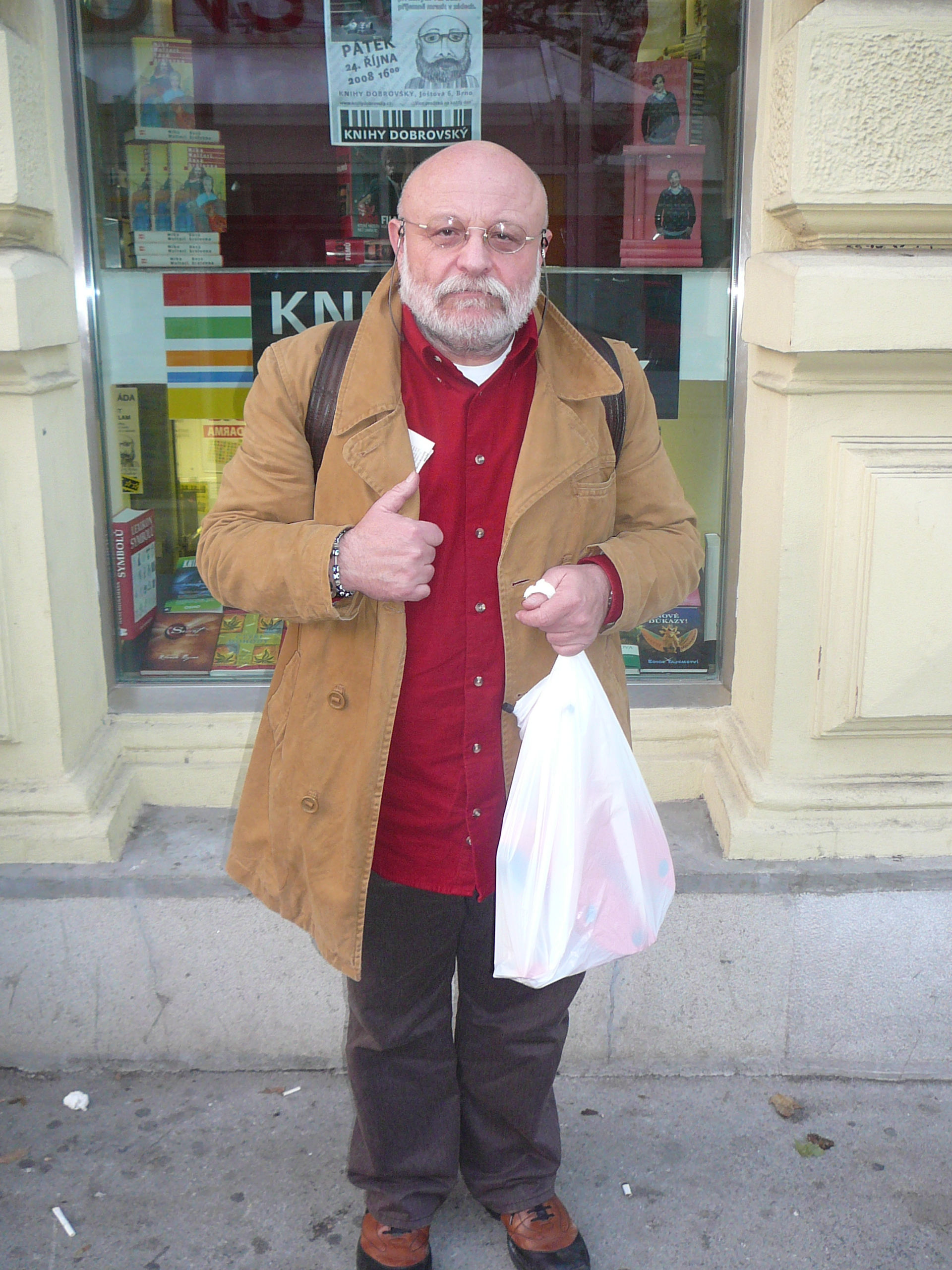 Arnošt Goldflam, Brno, Česká street, 2008